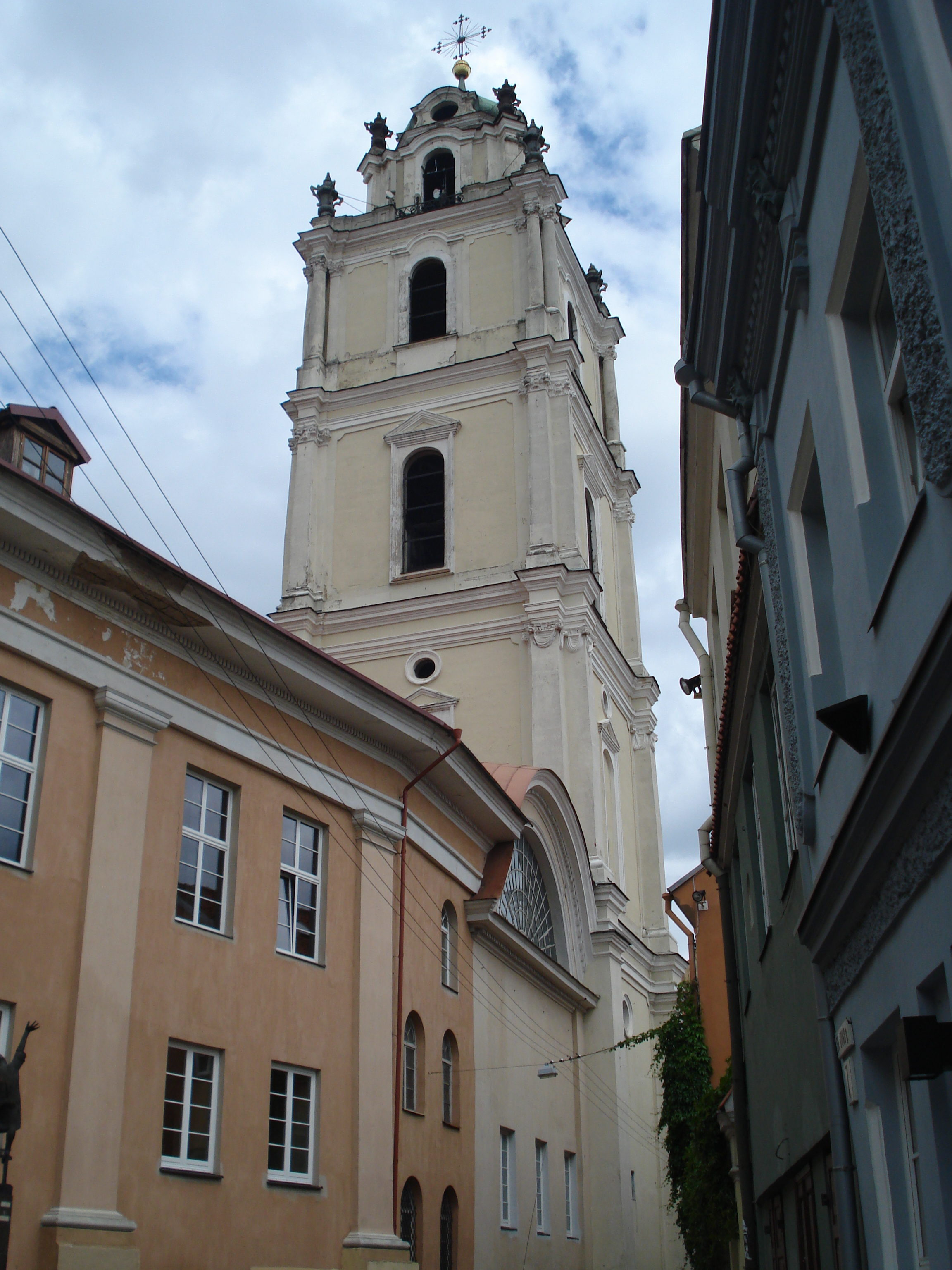 The bell tower of the Church of St. John in Vilnius